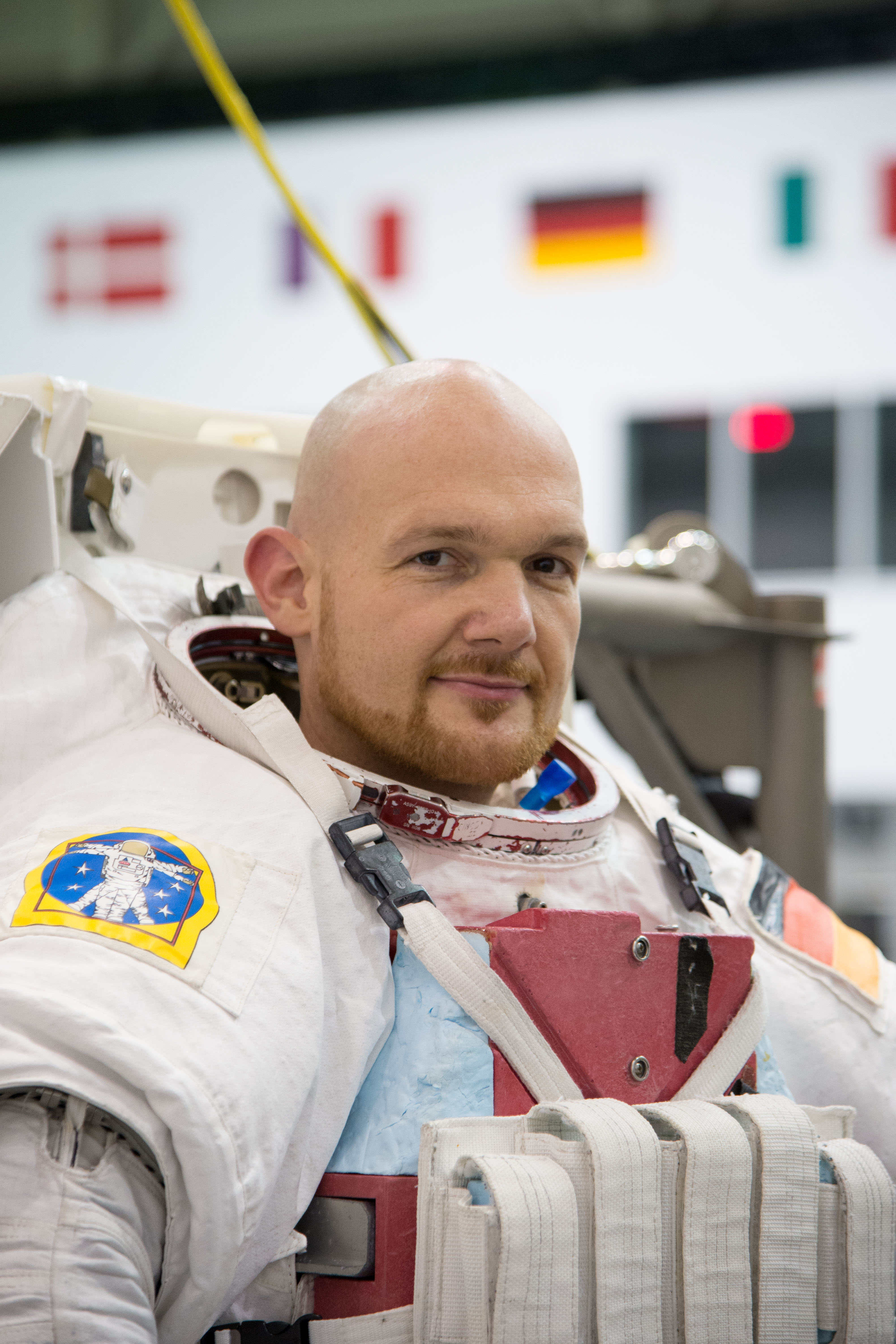 European Space Agency astronaut Alexander Gerst, Expedition 40/41 flight engineer, attired in a training version of his Extravehicular Mobility Unit (EMU) spacesuit, awaits the start of a spacewalk training session in the waters of the Neutral Buoyancy Laboratory (NBL) near NASA's Johnson Space Center.